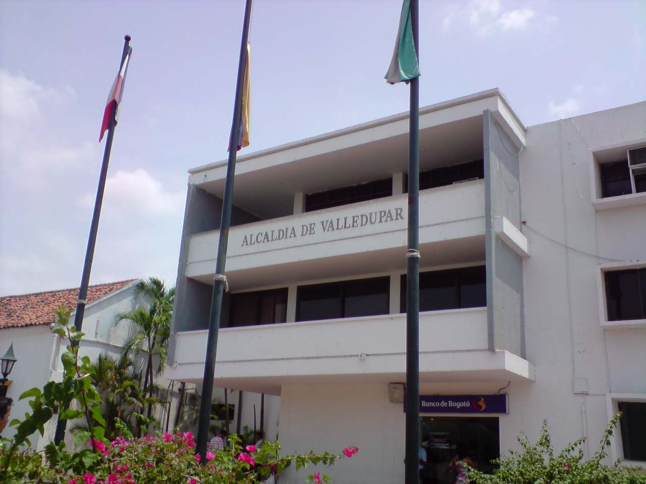 Mayor of Valledupar